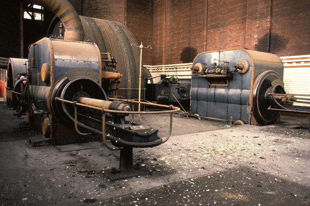 Steam engine, Leigh Spinners. The largest cross compound mill engine surviving in England. Not being looked after and was nearly removed but listed building consent was denied.